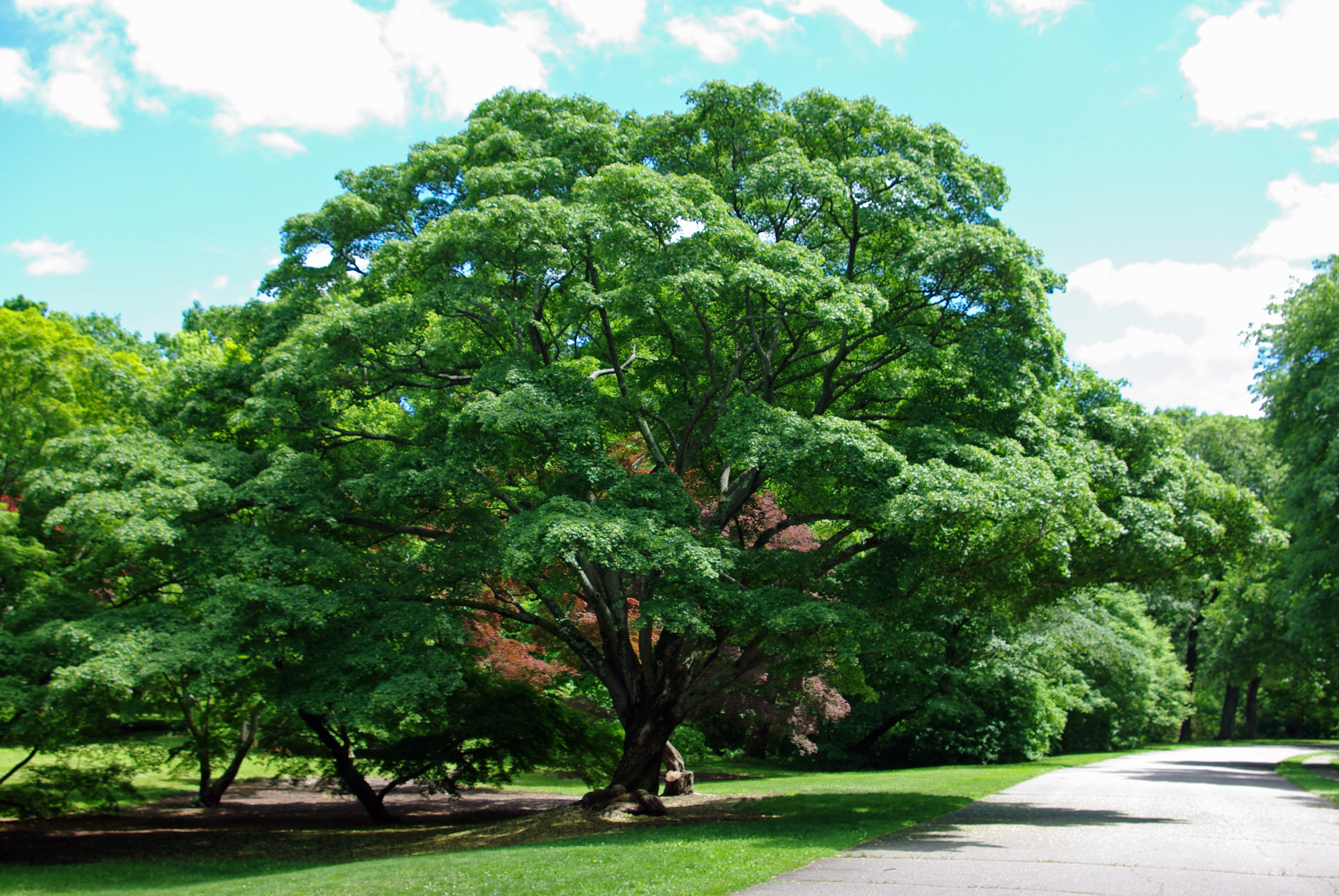 Acer mono, Arnold Arboretum, Boston, Massachusetts